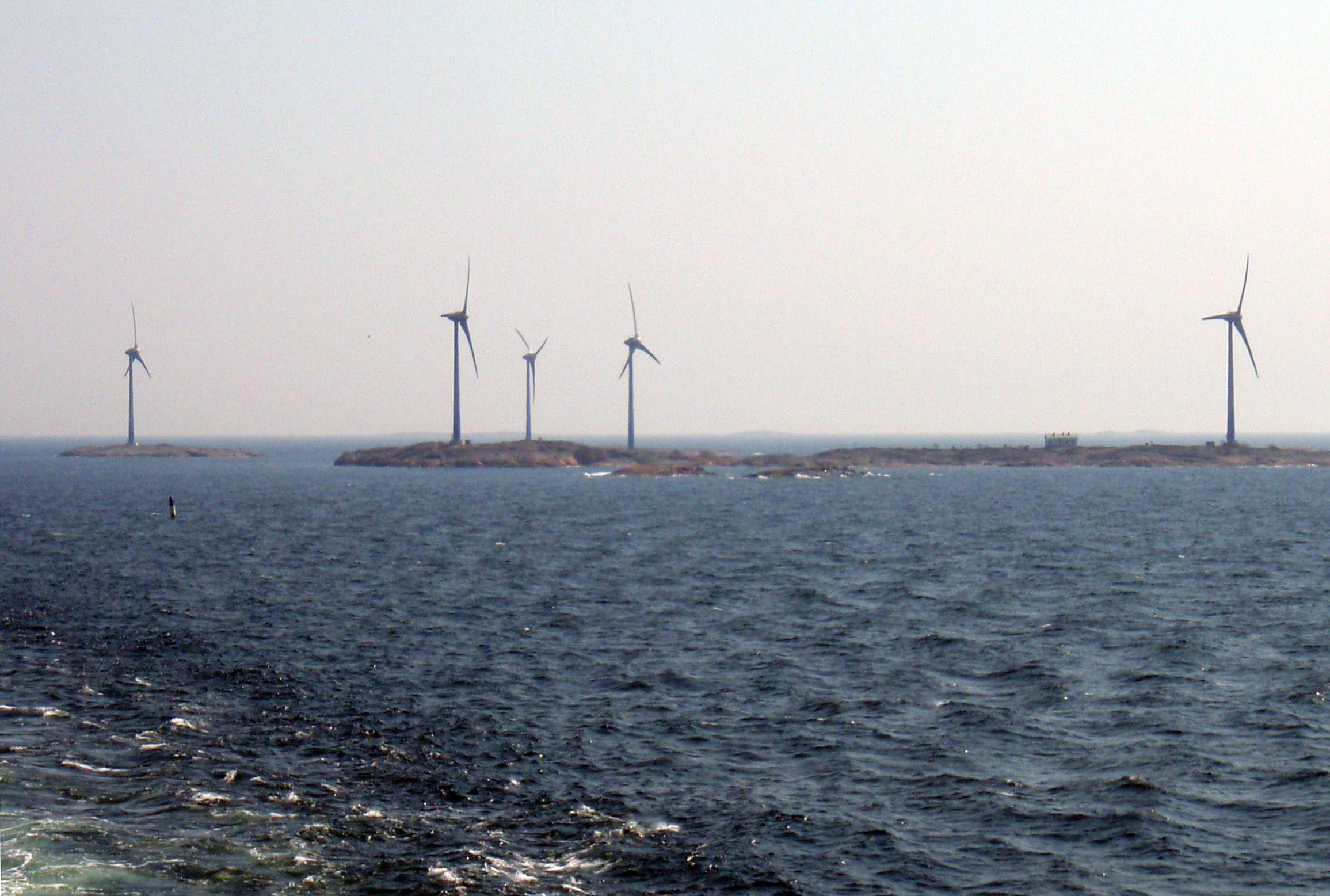 Wind power in Båtskär, Lemland, Åland, Finland.